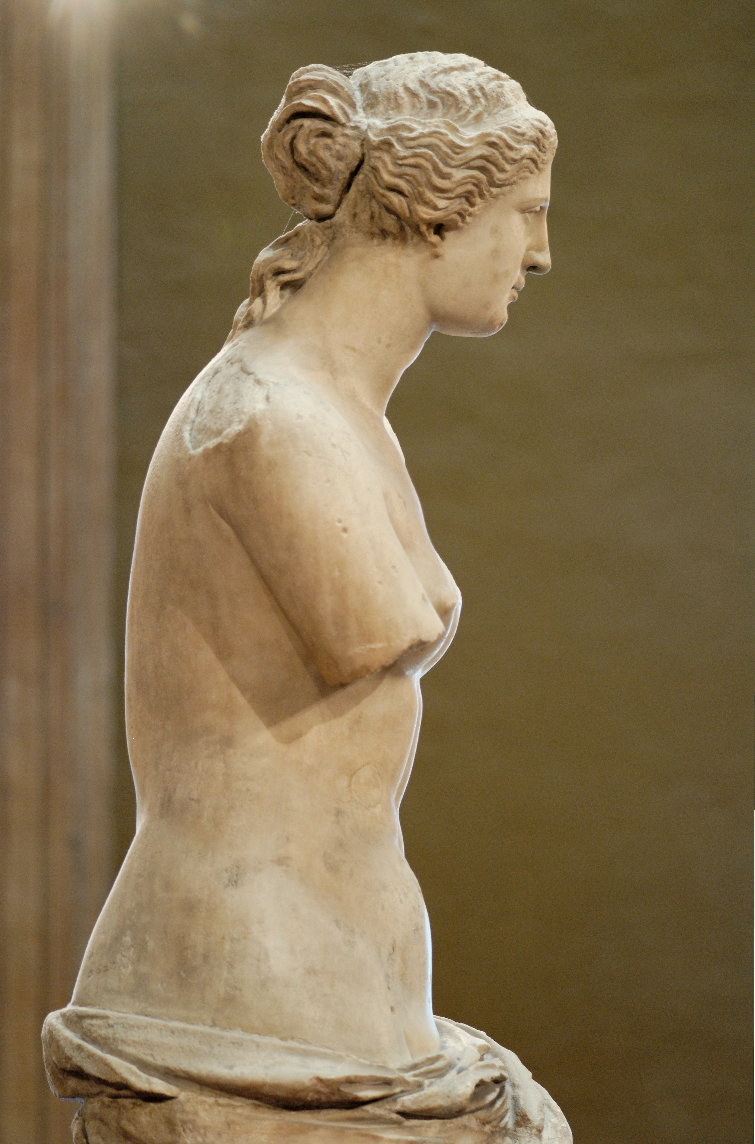 So-called “Venus de Milo” (Aphrodite from Melos). Parian marble, ca. 130-100 BC? Found in Melos in 1820.